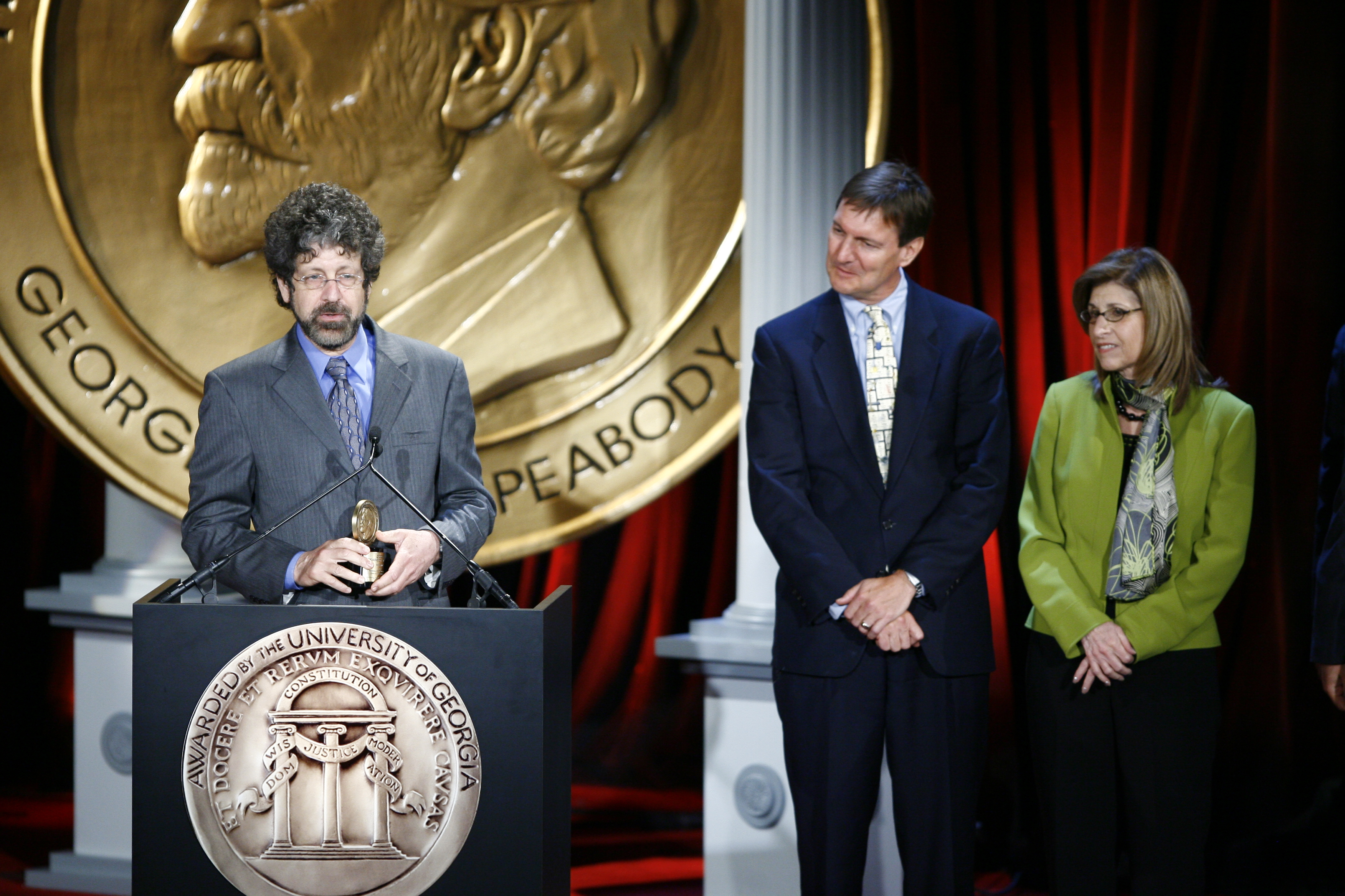 PHOTO CREDIT: ANDERS KRUSBERG / PEABODY AWARDS John Rubin, John Bredar and Paula Apsell 69th Annual Peabody Awards Luncheon Waldorf=Astoria Hotel New York, NY USA May 17, 2010